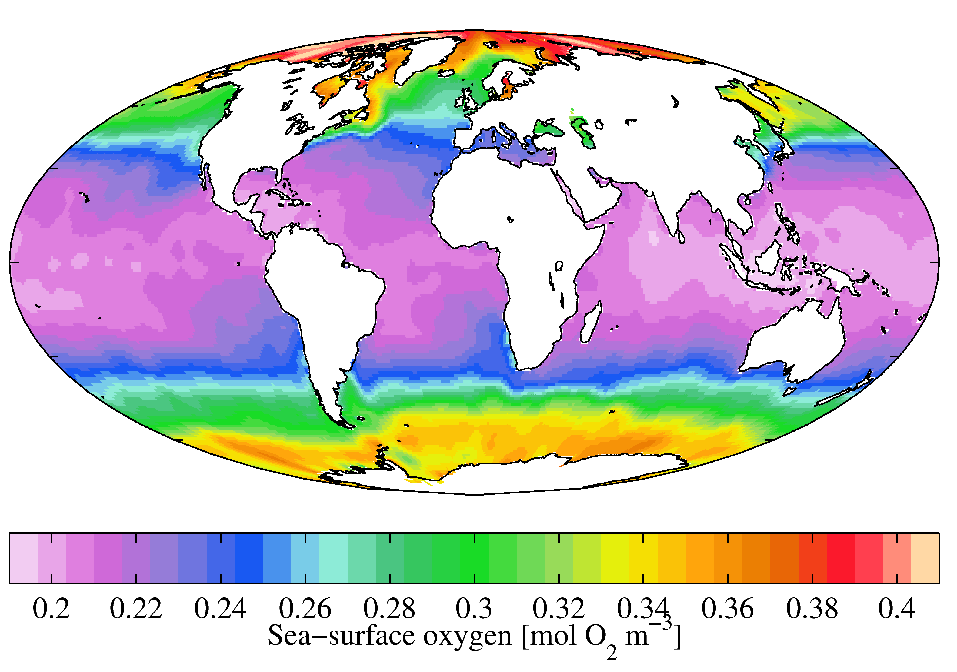 Annual mean sea surface dissolved oxygen from the World Ocean Atlas 2009. Dissolved oxygen here is in mol O2 m-3. It is plotted here using a Mollweide projection (using MATLAB and the M_Map package).